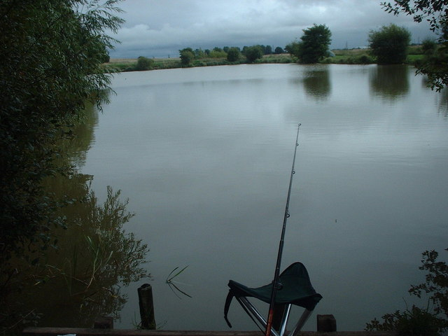 Coarse fishing water at Burton